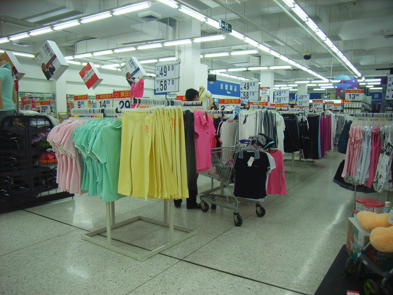 深圳華僑城沃爾瑪百貨商場